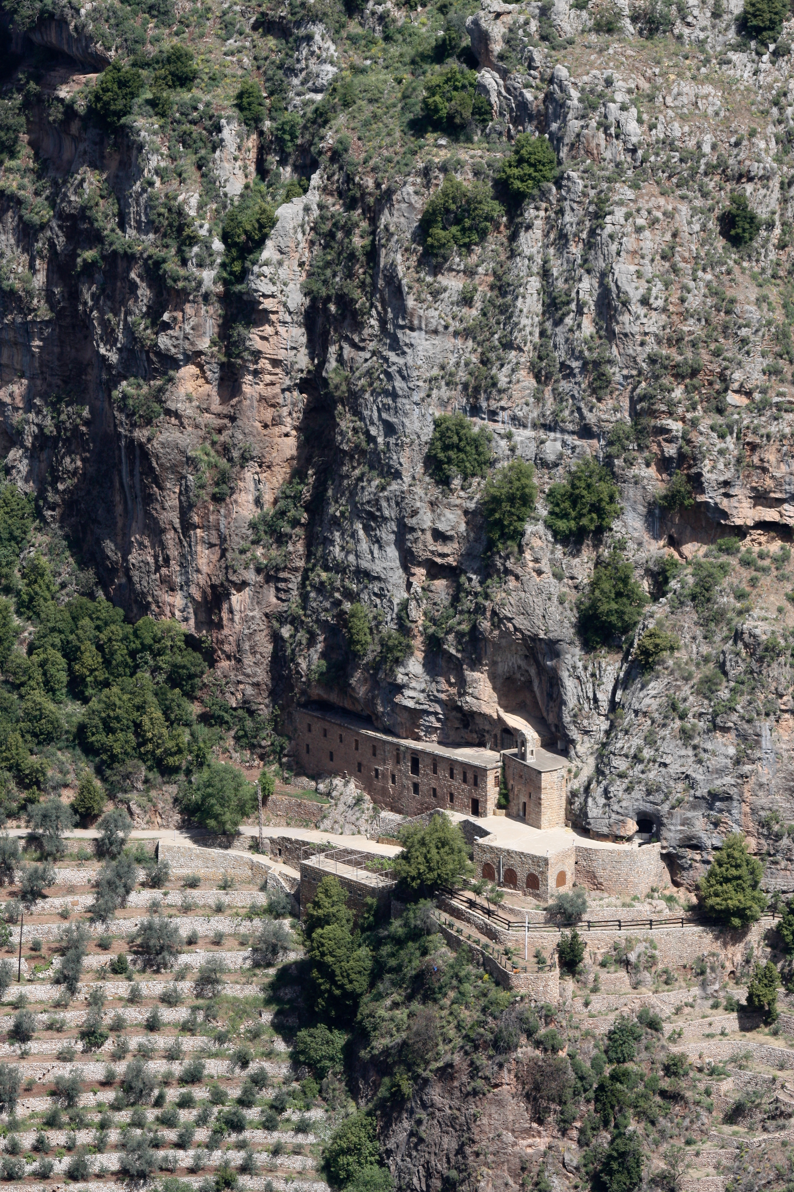 The Maronite monastery St. Lichaa (with the Mar Bichey hermitage), in the Kadisha Valley.